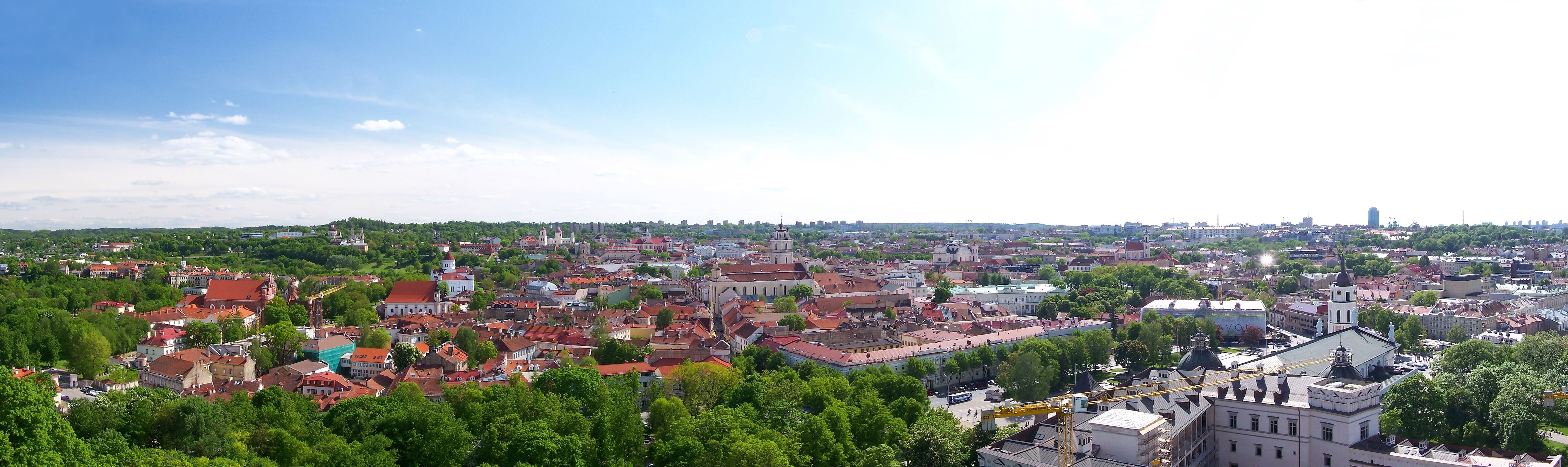 Panorama of Vilnius (Lithuania).